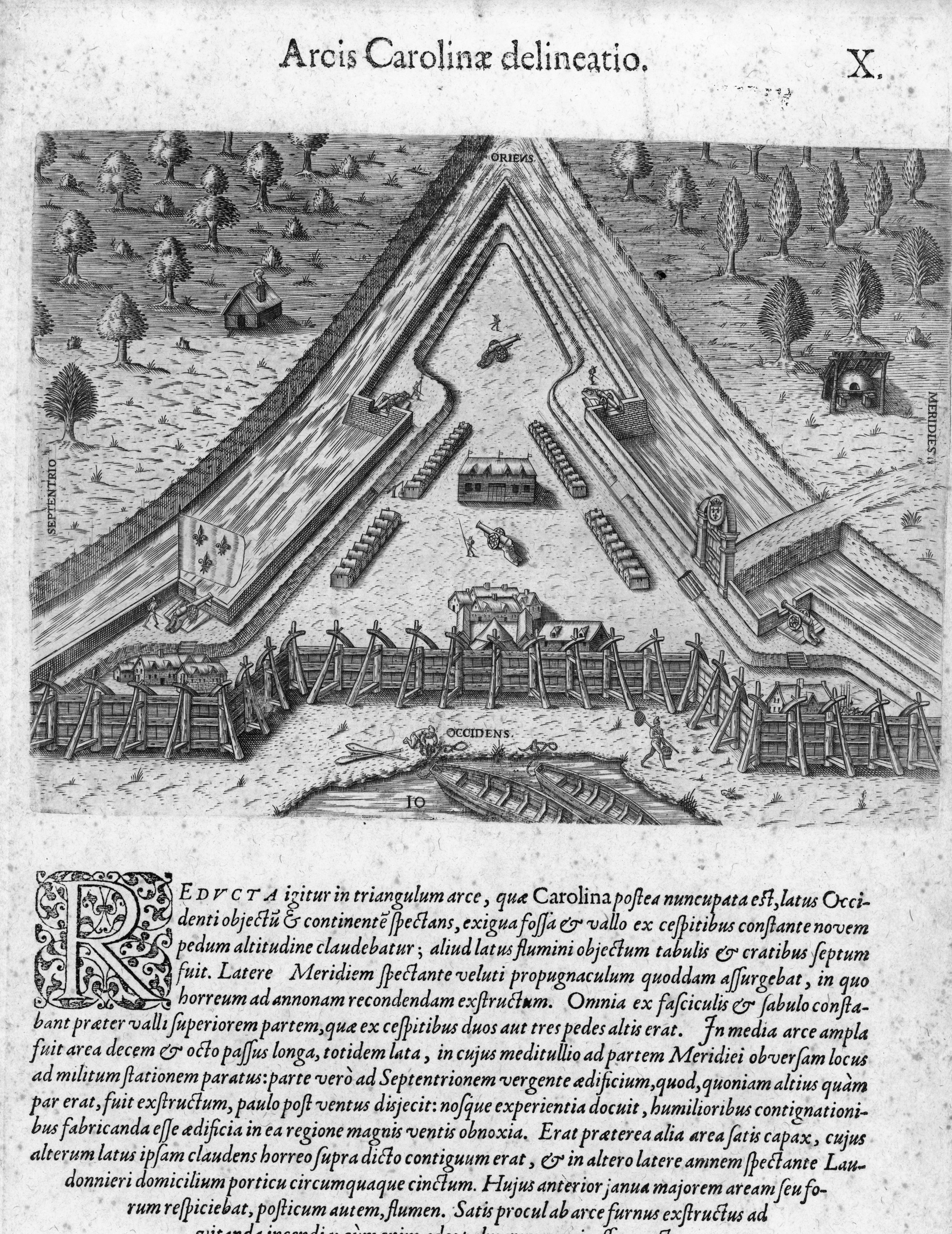 Page and drawing of Fort Caroline, Florida, US